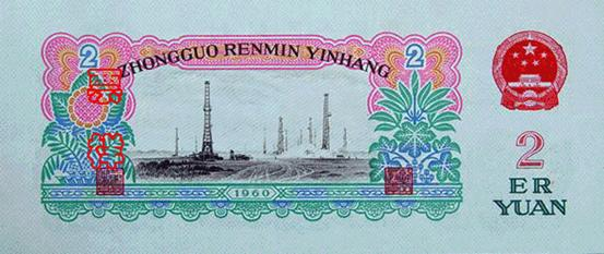 Third series of the renminbi 2yuan(sample)